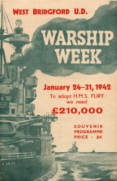 West Bridgford's Warship Week. Crown Copyright deemed to have expired 50 years from publication. From the Imperial War Museum online collection.